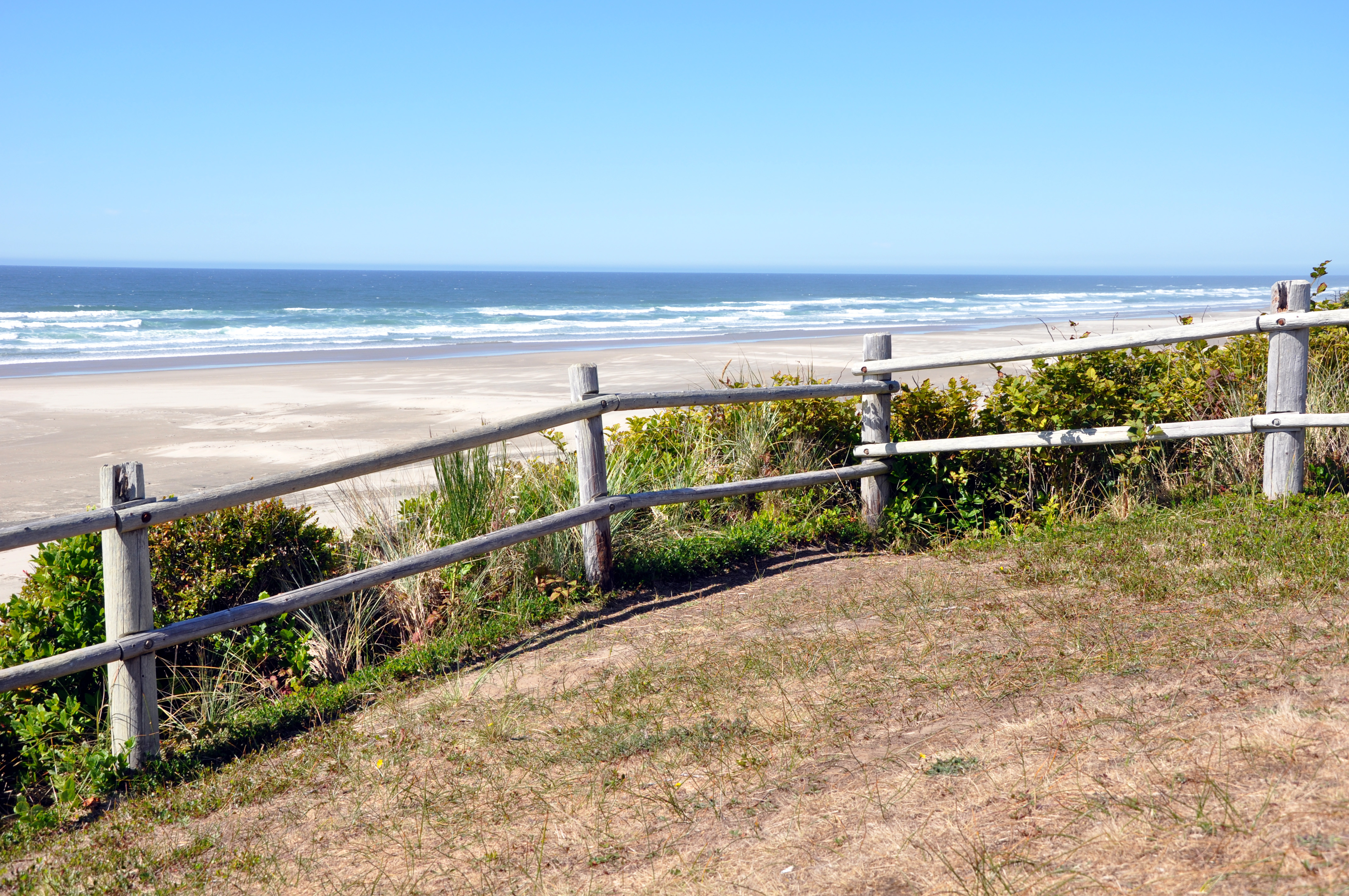 Driftwood Beach State Recreation Site, slightly north of Waldport in the U.S. state of Oregon. View is to the northwest over the Pacific Ocean.